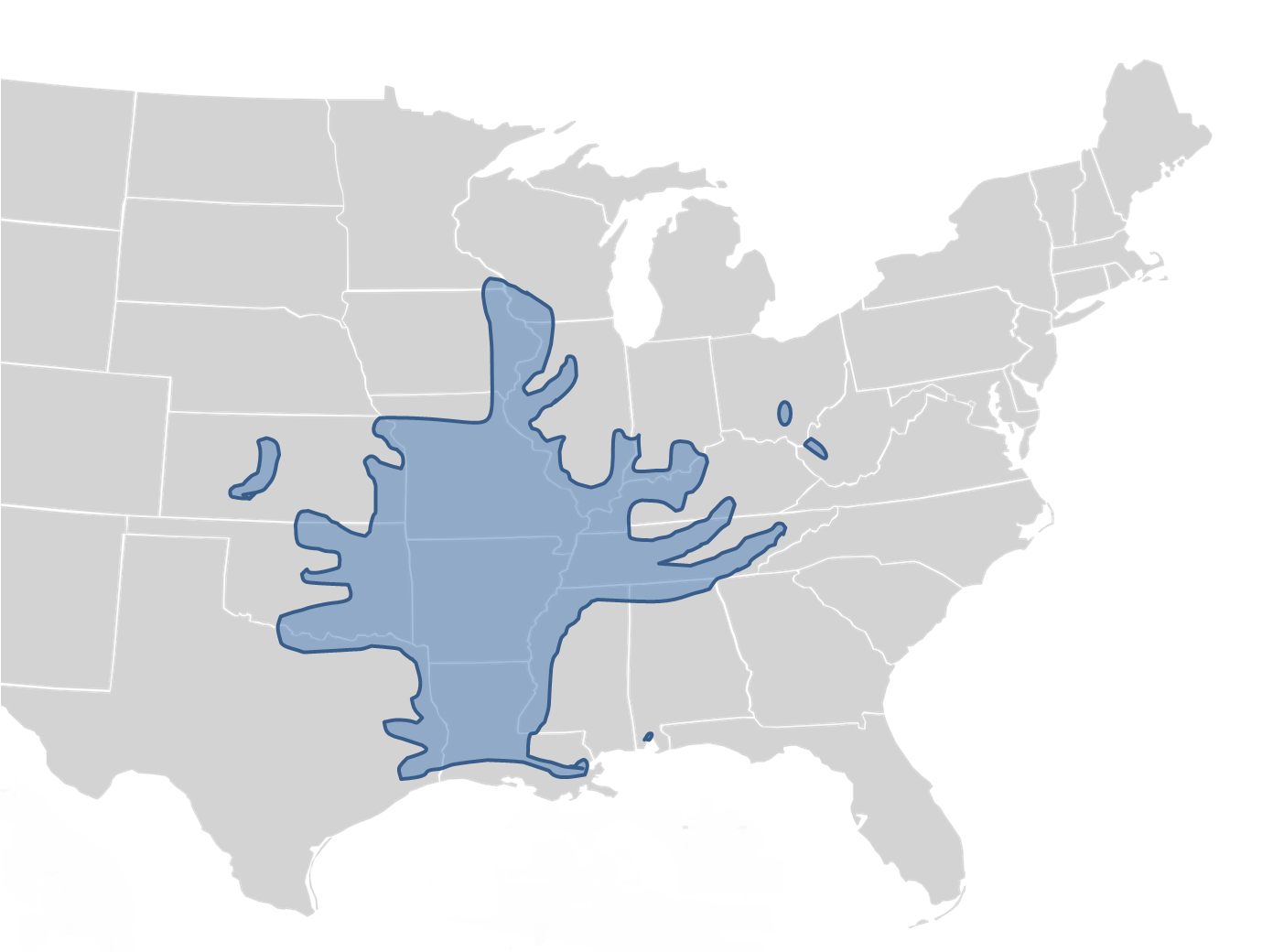 Range map of the Ouachita Map Turtle (Graptemys ouachitensis), based on C.H. Ernst and J.E. Lovich. (2009) "Turtles of the United States and Canada. 2nd Ed." Baltimore: Johns Hopkins University Press, pg 320